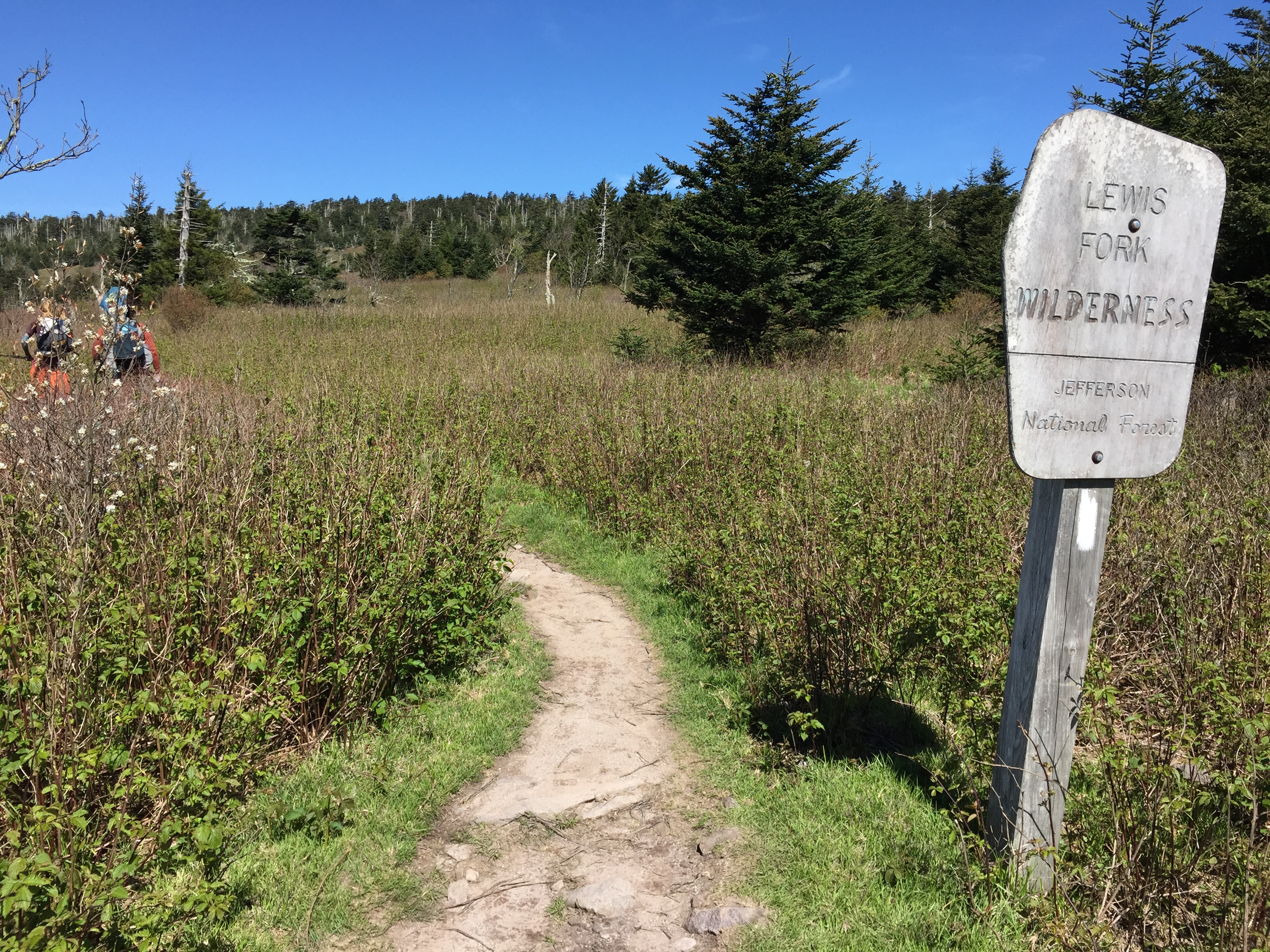 View south along the Appalachian Trail entering the Lewis Fork Wilderness, within the Mount Rogers National Recreation Area in Grayson County, Virginia